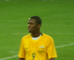 Brucie at ANZ Stadium vs. China